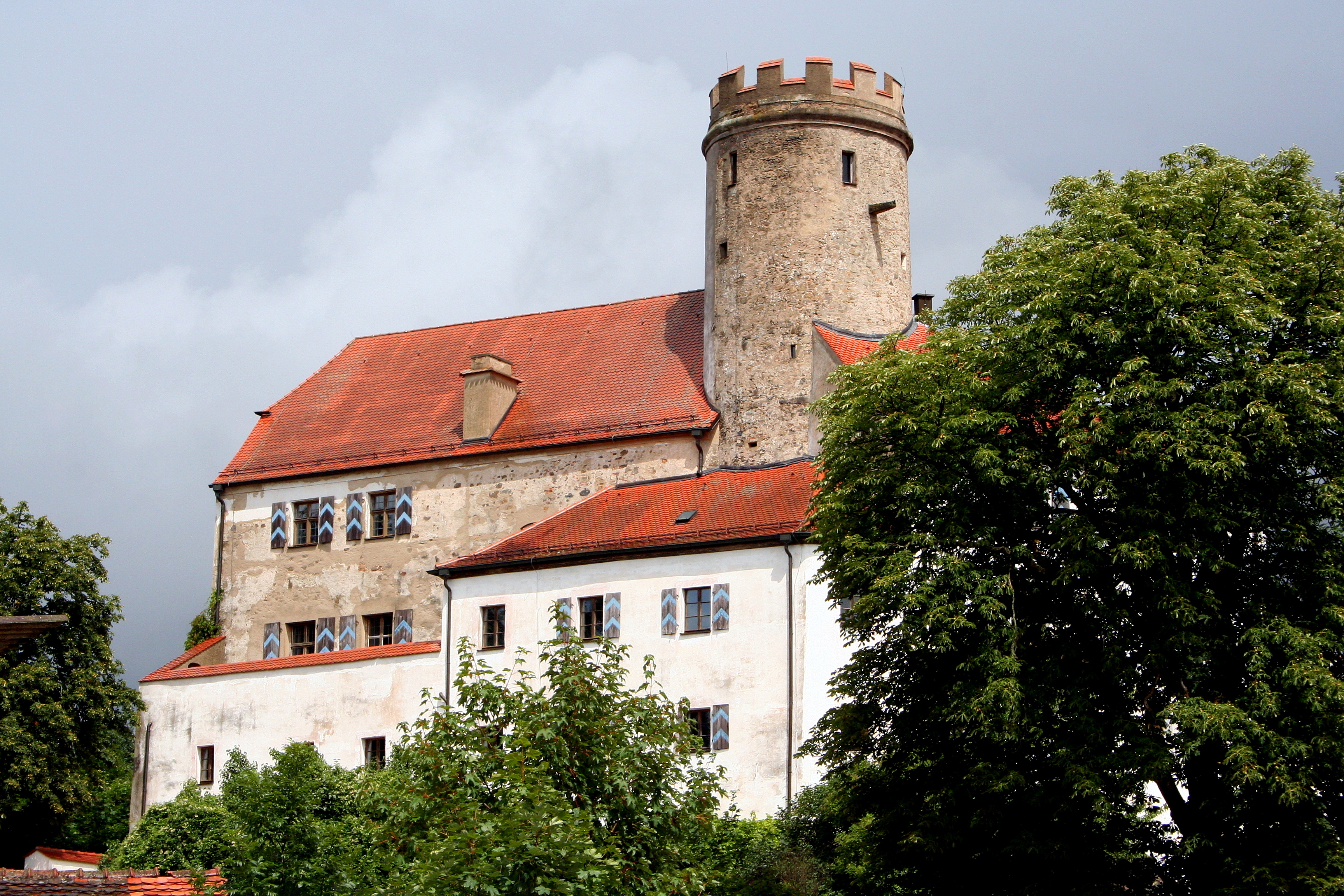 Heritage Building; Germany; Bavaria; Upper Palatinate; administrative district Cham; Thierlstein Castle (D-3-72-116-125)This is a photograph of an architectural monument.